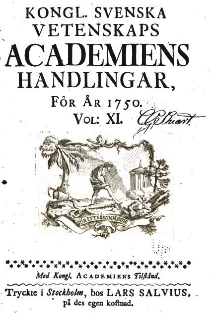 Front page of the Proceedings of the Royal Swedish Academy of Sciences (usually known as "Vetenskapsakademiens Handlingar") for the year 1750 (volume XI)